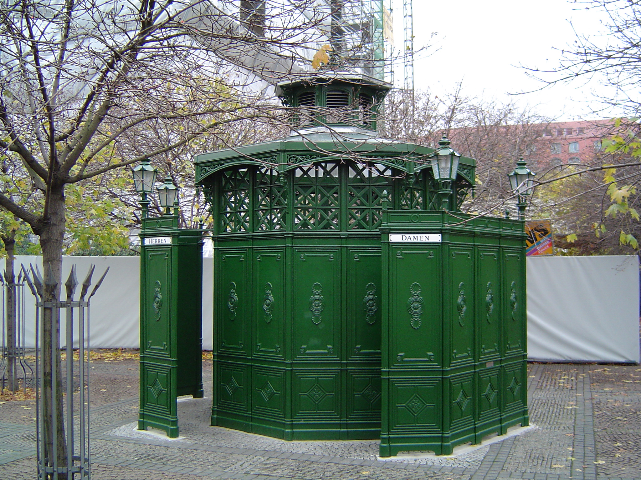 Description: A typical Berlin outdoor bathroom, also called "Cafe Achteck" (cafe octagon). This one can be found on the Gendarmenmarkt.